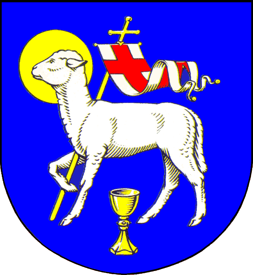 Coat of arms of Garding Blasonierung: In Blau, unten begleitet von einem goldenen Abendmahlskelch, das golden nimbierte silberne Gotteslamm, mit dem rechten Vorderfuß die geschulterte Siegesfahne haltend: an goldener, oben in ein Kreuz auslaufender Stange ein silbernes, in zwei Zipfel endendes Banner mit rotem, durchgehendem Kreuz.